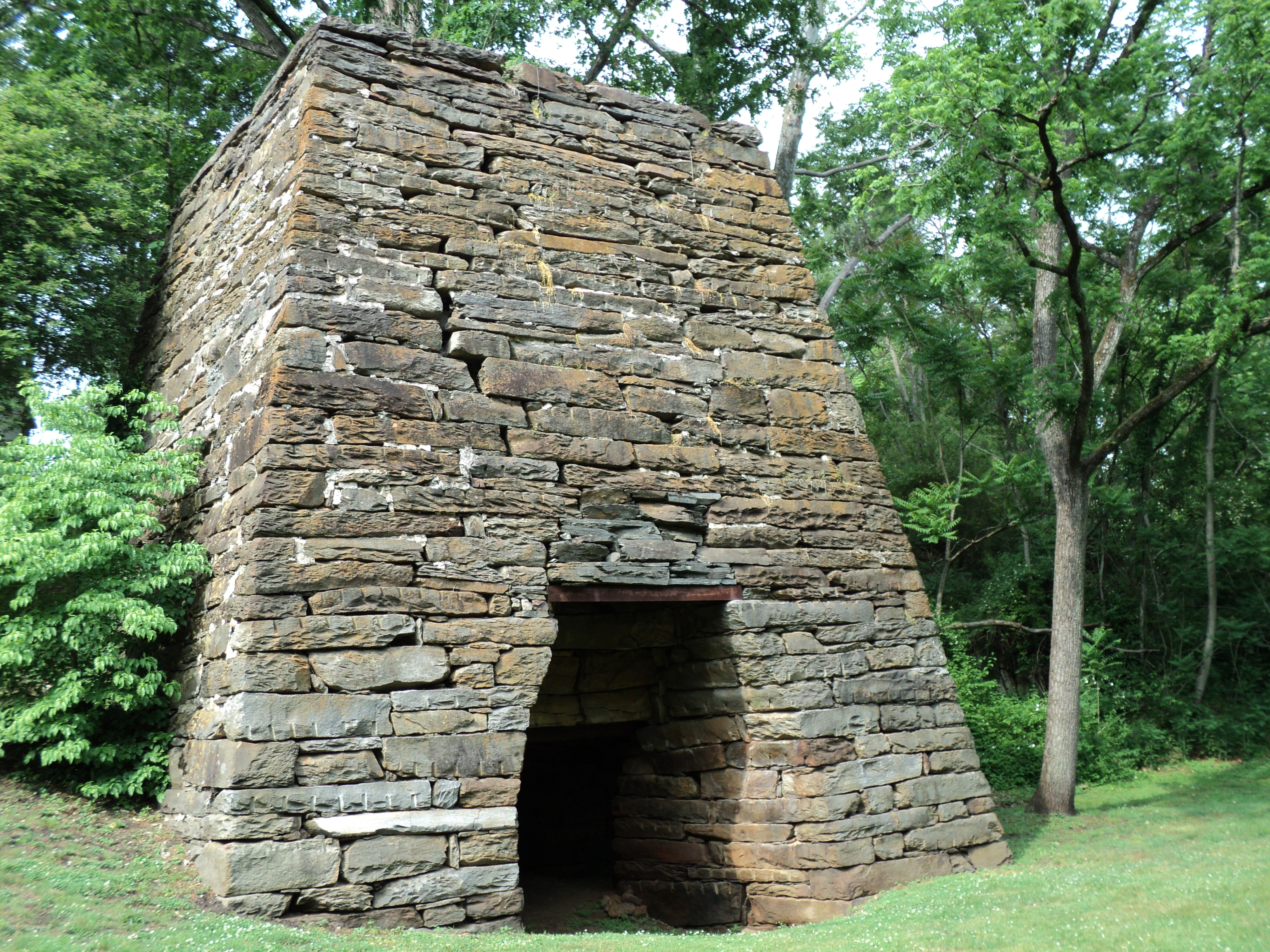 The exterior view of the blast furnace of the Washington Iron Works, Franklin County, Virginia.